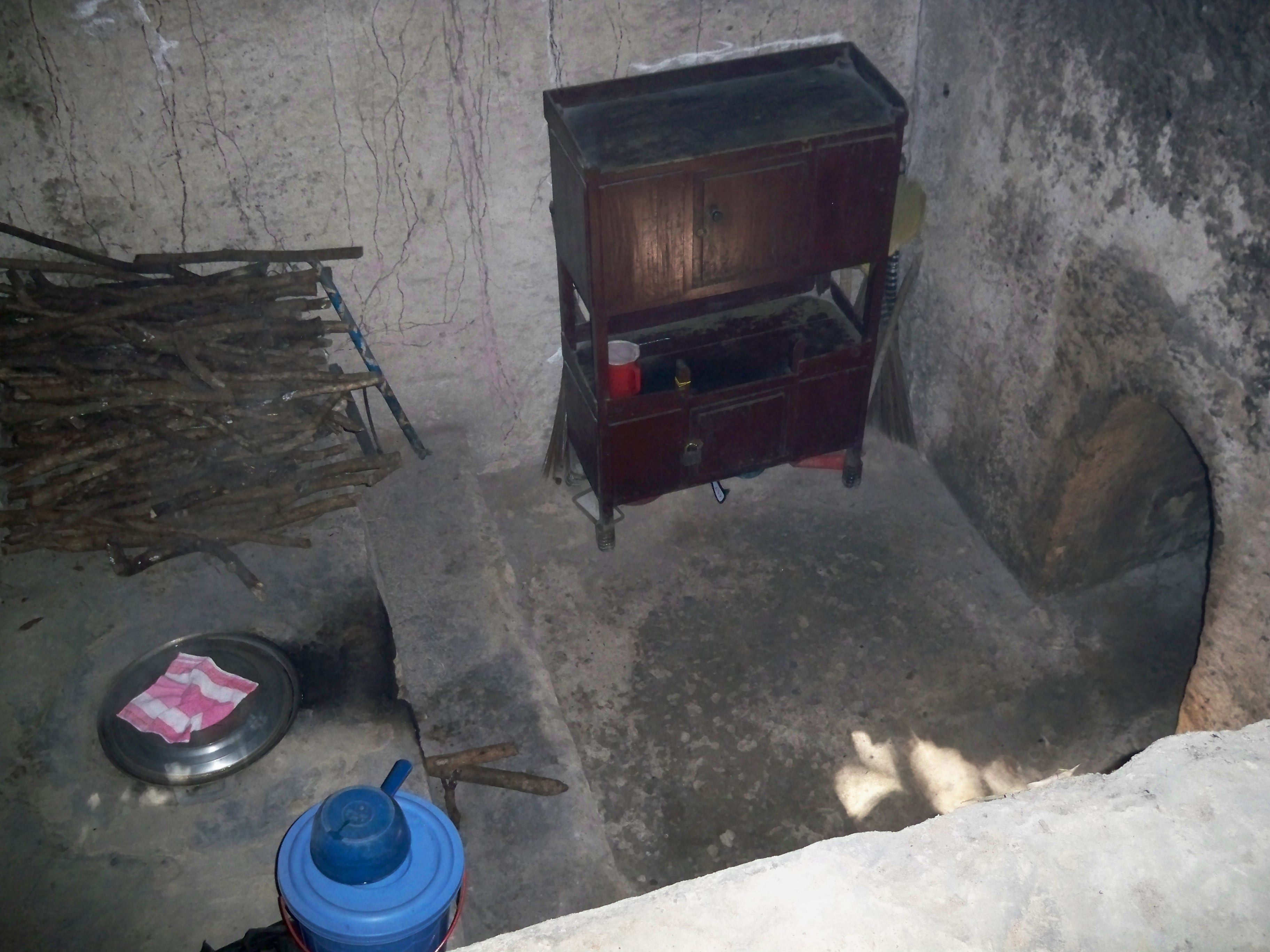 Apparatus to cook from Vietnam. See Hoang Cam Stove